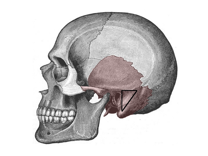 Triangle of Chipault